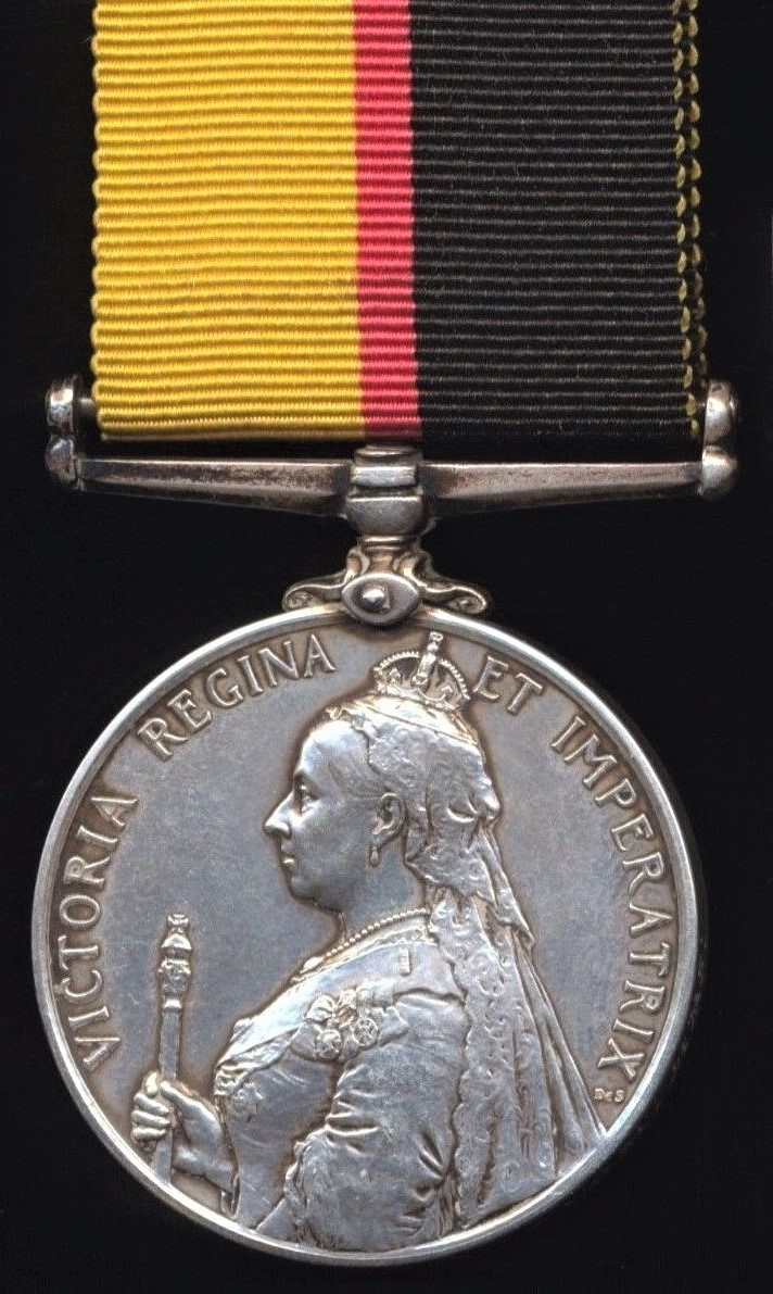 British campaign medal awarded for the Sudanese campaign 1896-98.